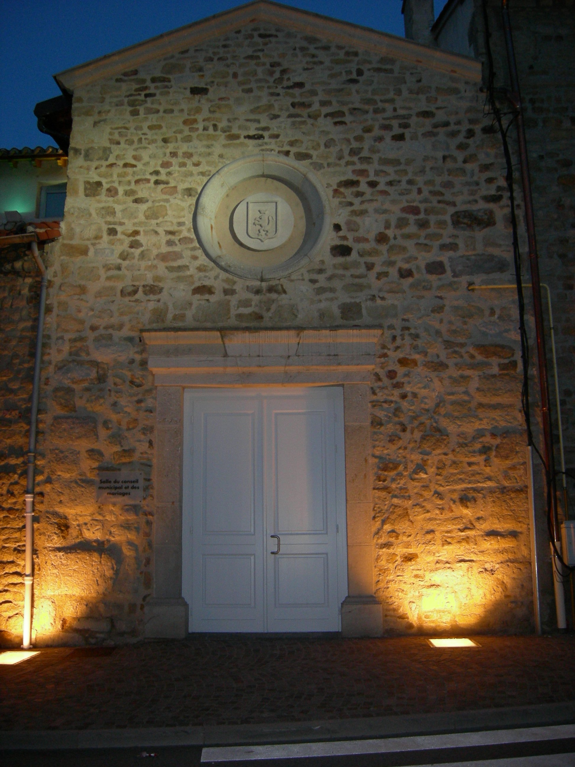 saint andré church